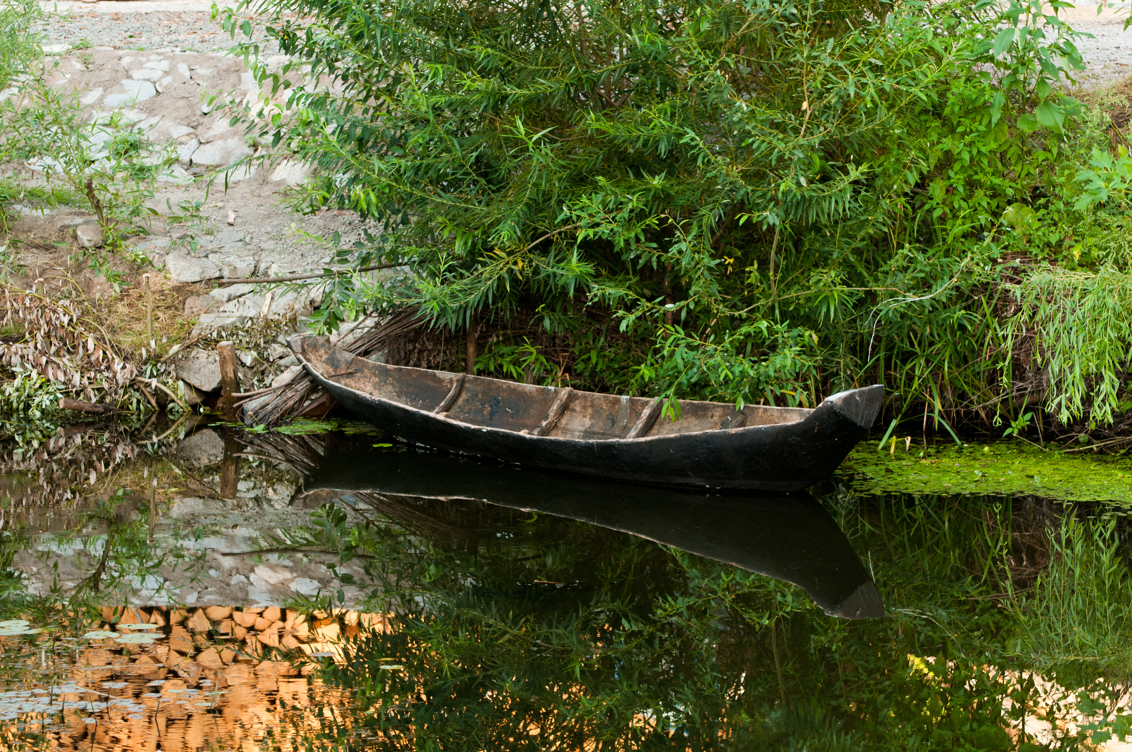 A boat made out of a single wooden log. Late 19th century, Ukraine.